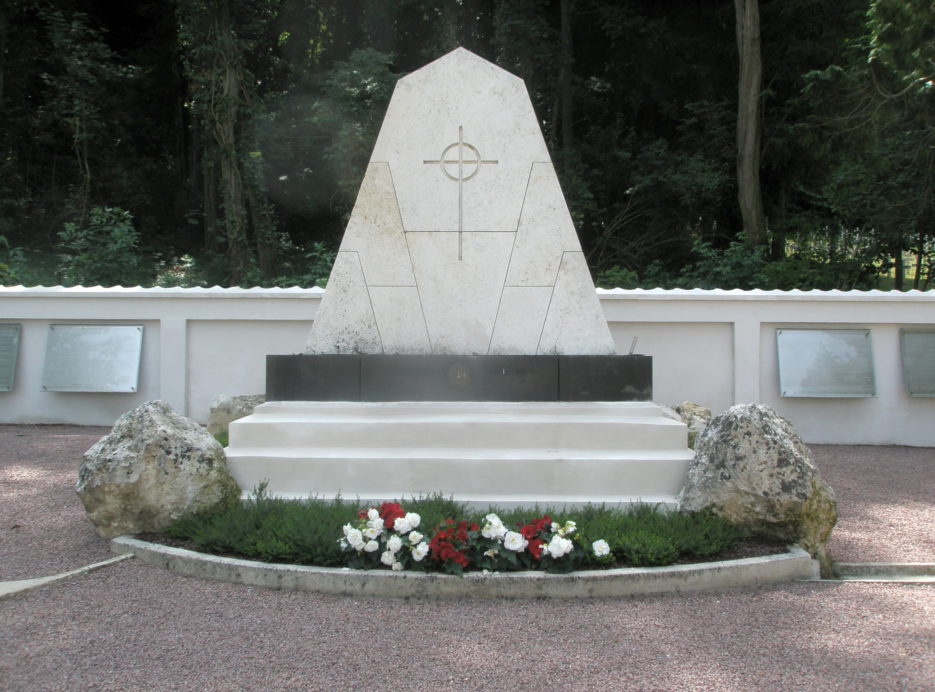 Danish soldiers cemetery in Braine, France